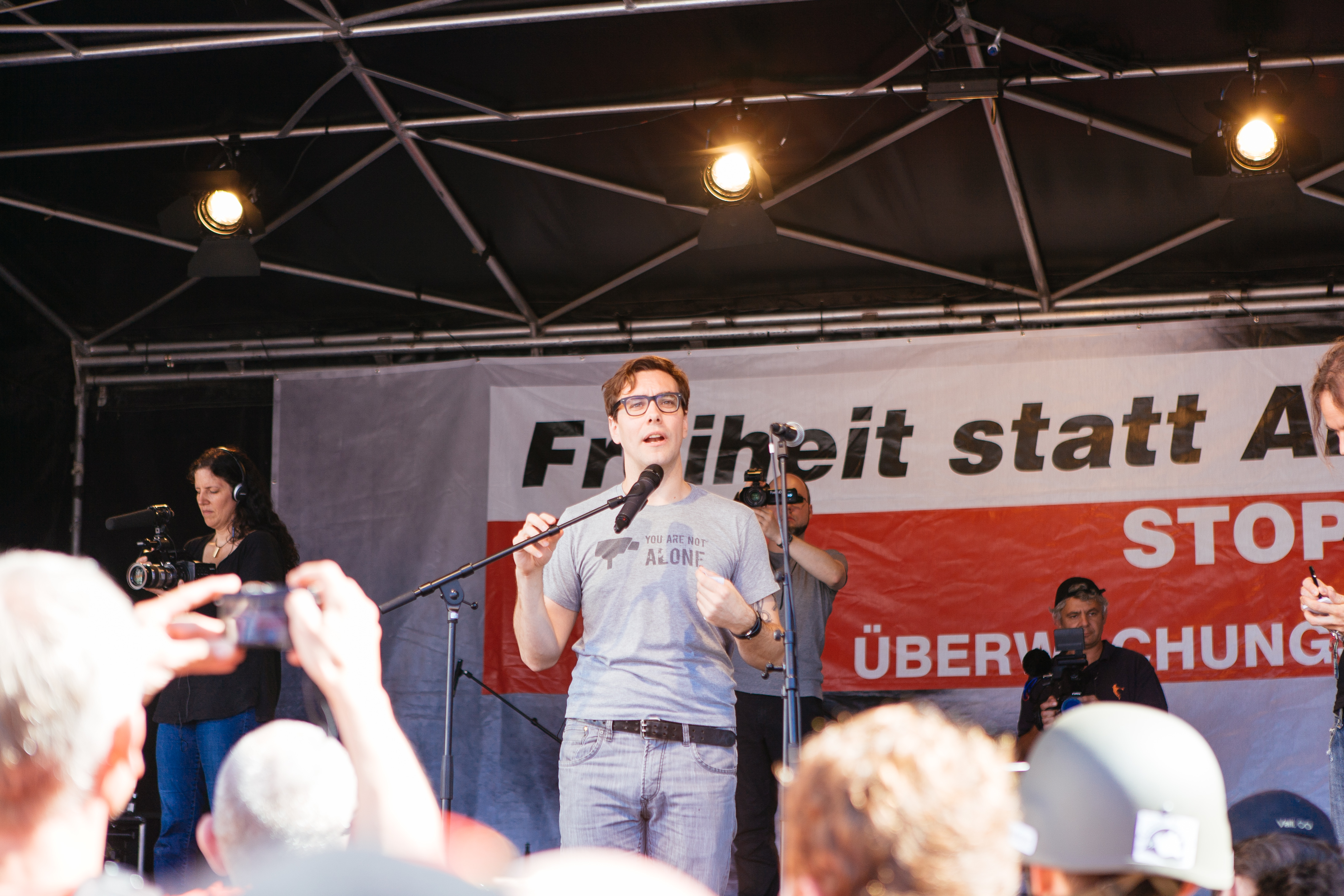 Depicted person: Jacob Appelbaum